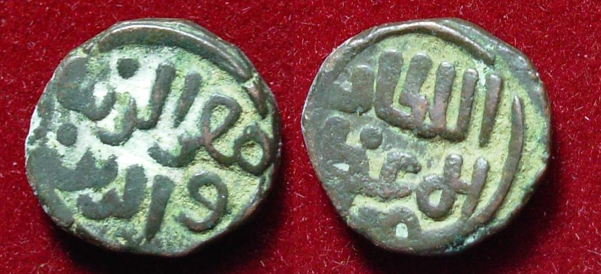 image from personal collection - coin from rule of Muiz ud din Qaiqabad